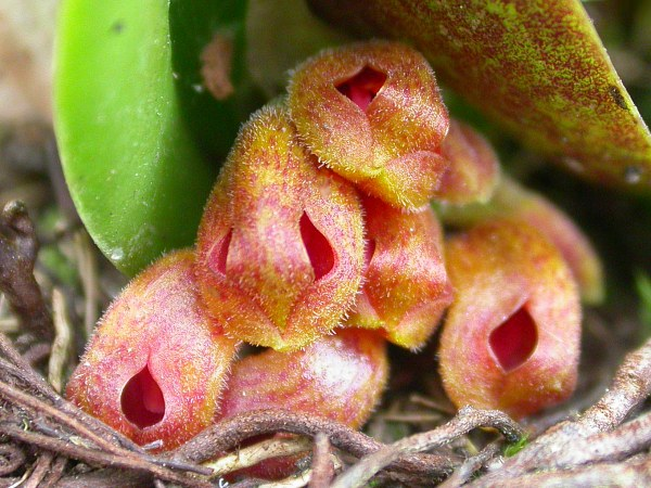 Cryptophoranthus fenestratus